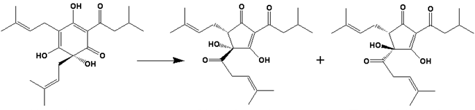 Isomerization of humulone into cis-isohumulone and trans-isohumulone